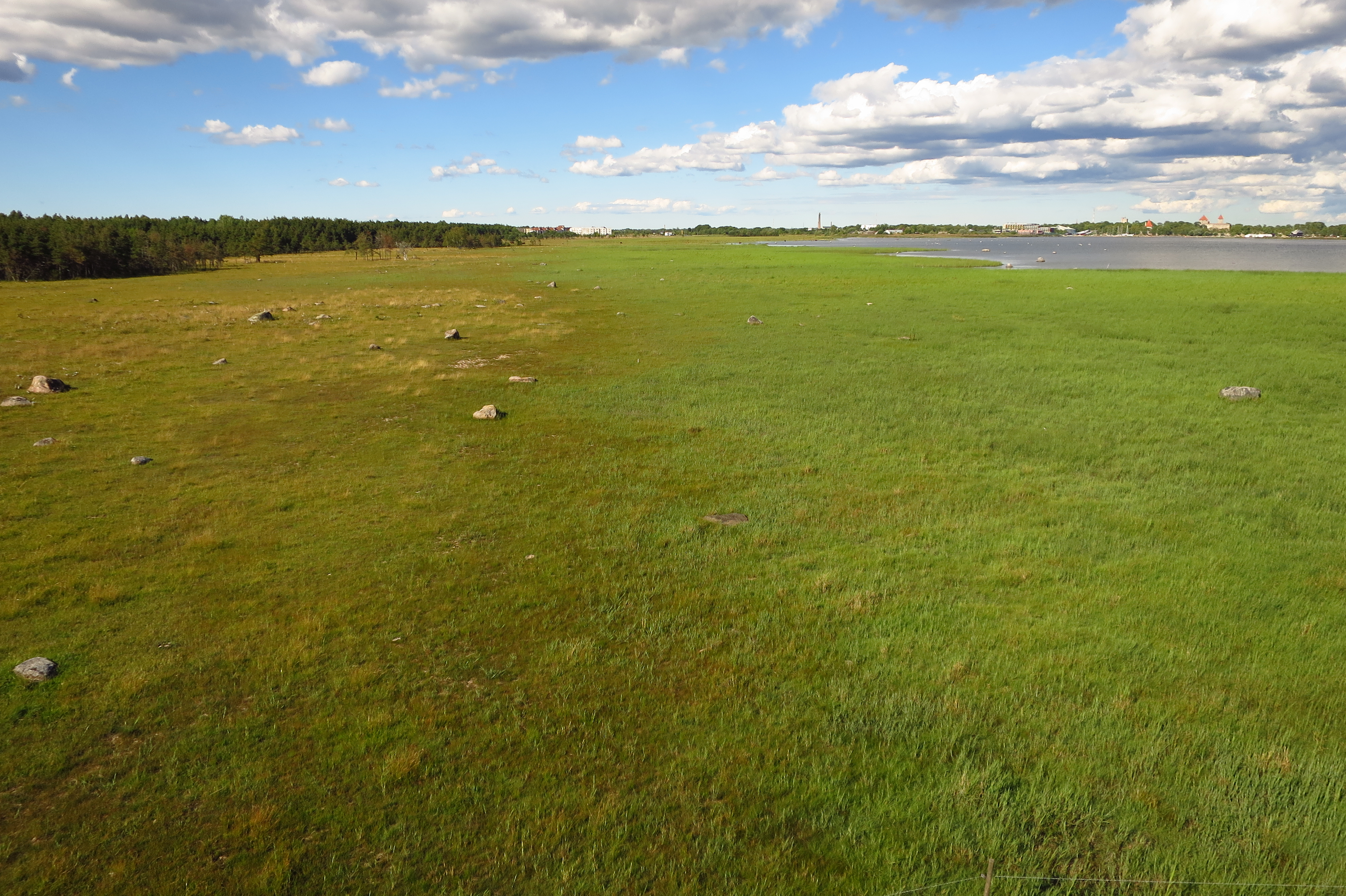 Loodenina rand Loodenina kaitsealal